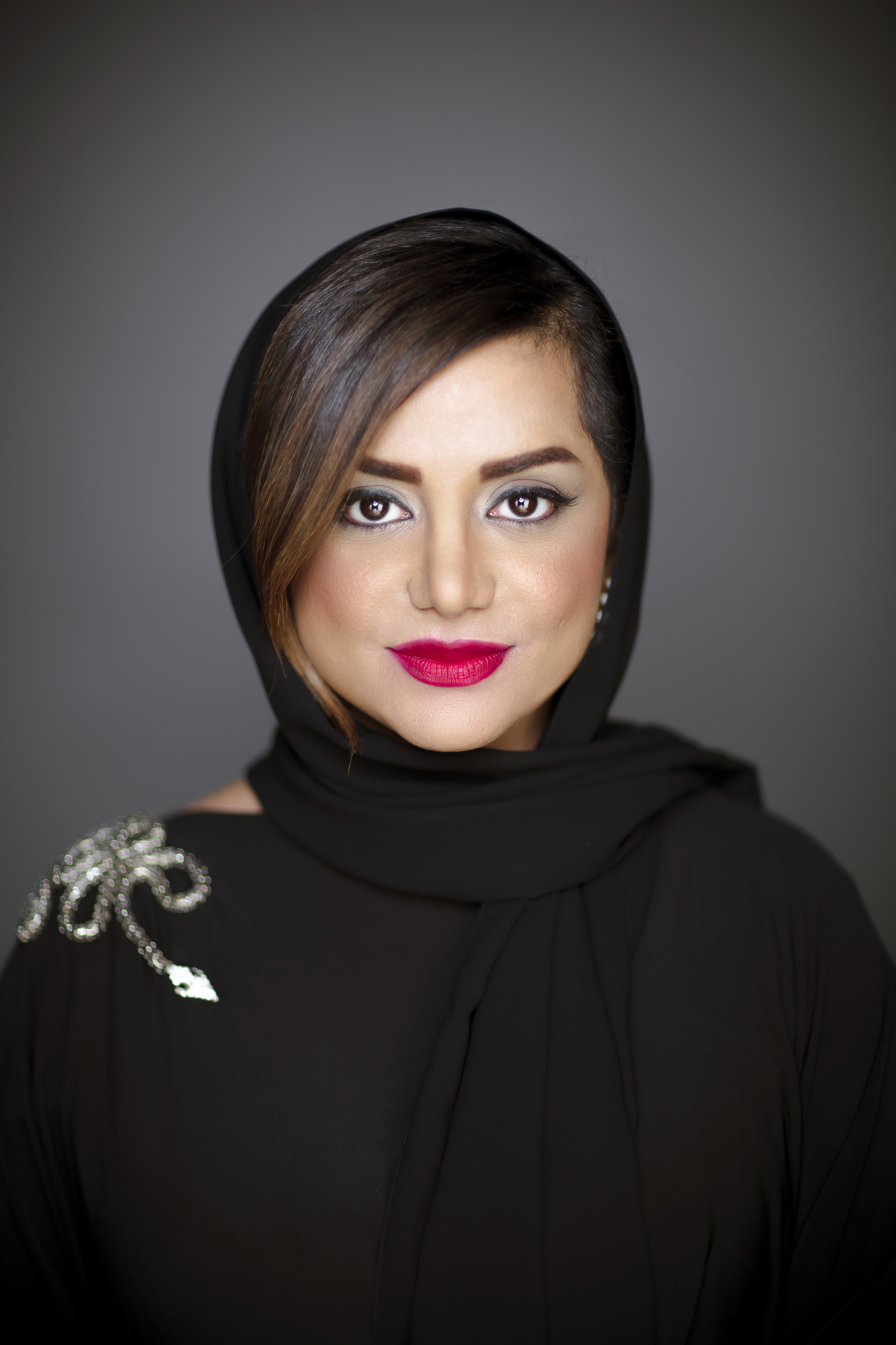 Nayla Al Khaja Photo